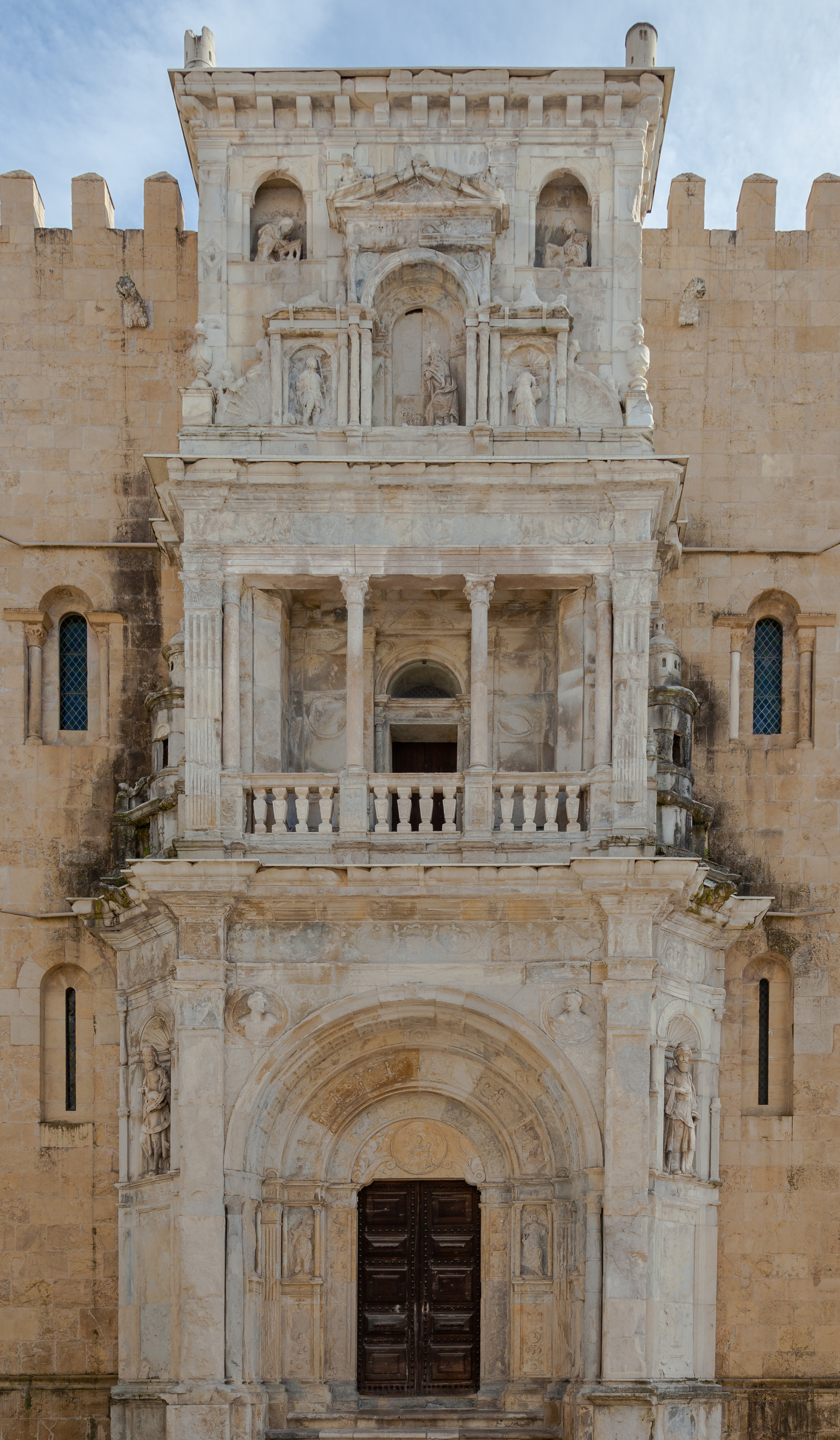 Old Cathedral, Coimbra, Portugal